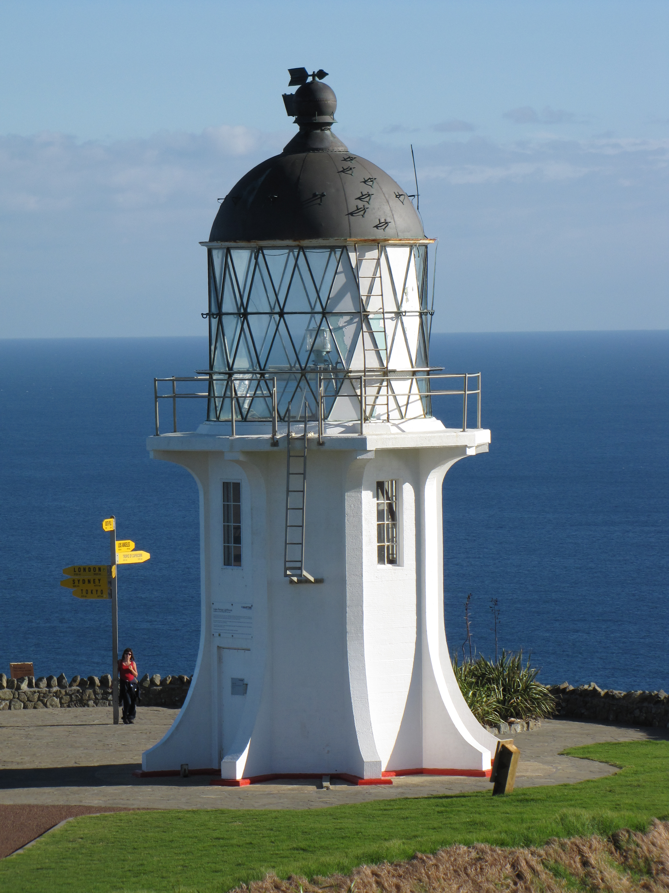 Cape Reinga lighthouse, near the northern most point of the North Island of New Zealand